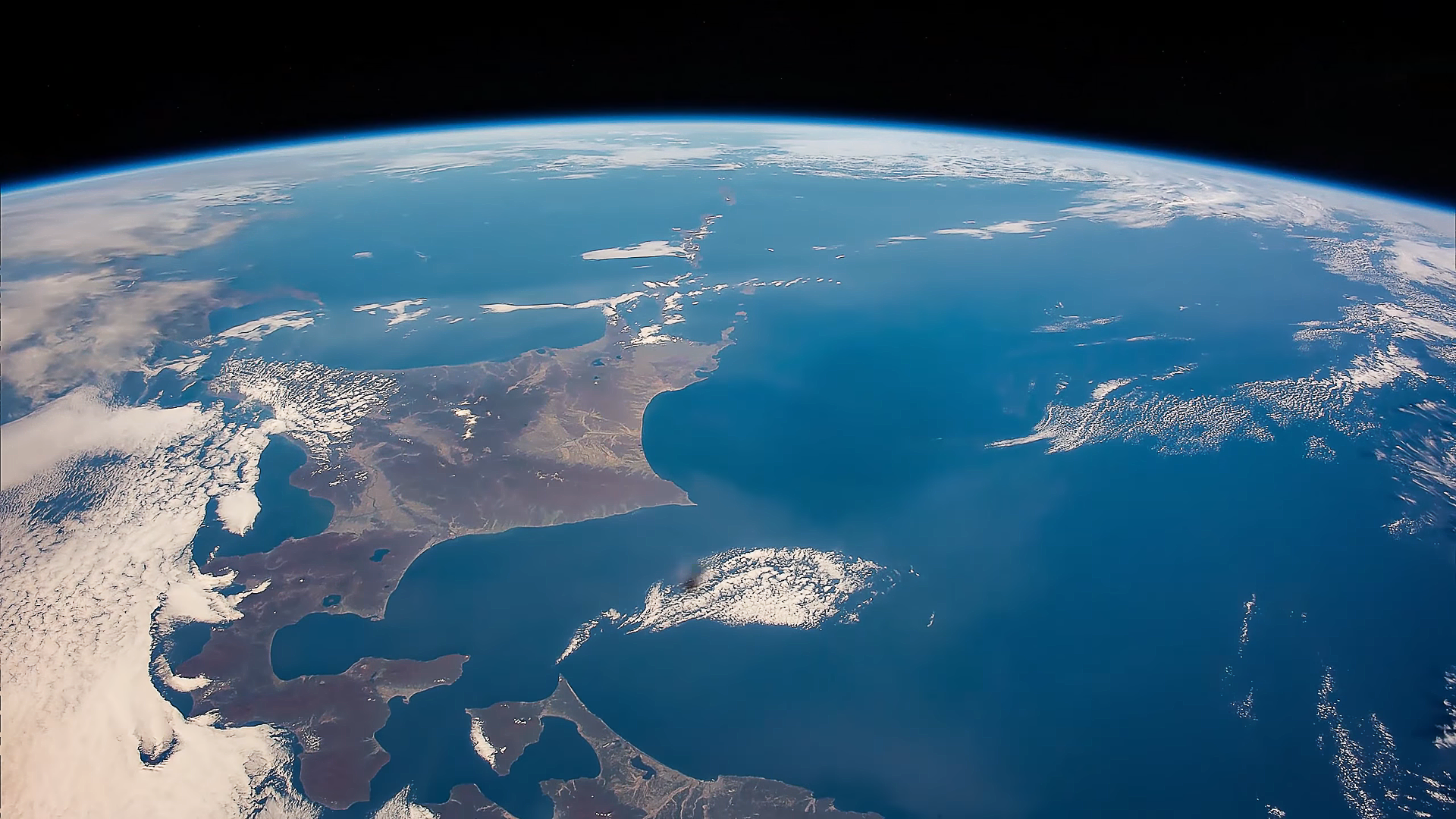 Hokkaido, Japan, seen from the International Space Station (17 October 2015)